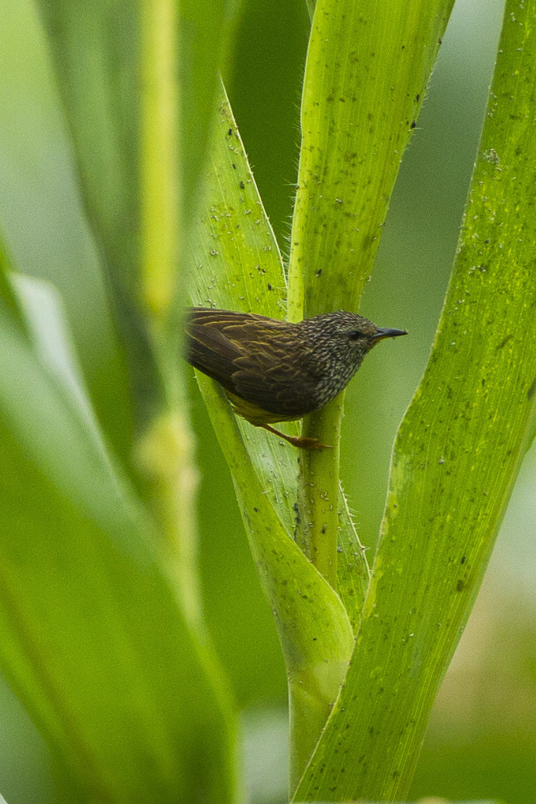 A Tit Hylia (Pholidornis rushiae) near of the Kakum National Park (Ghana)